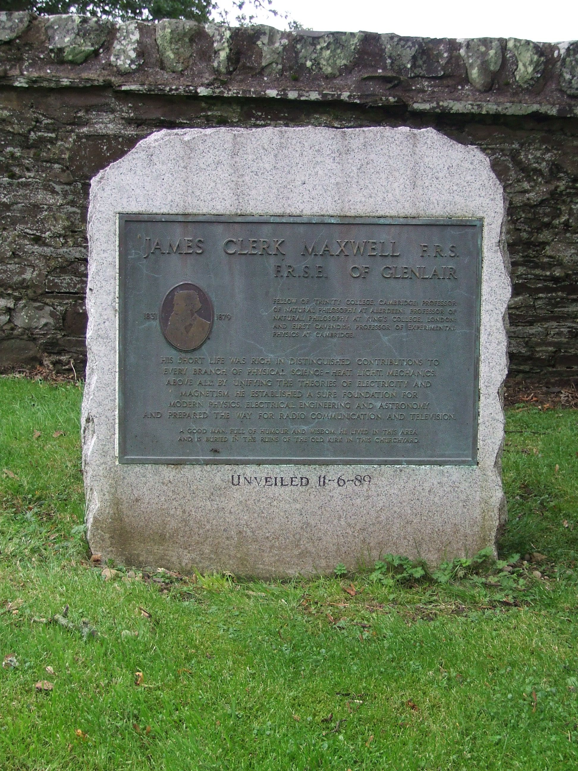 A monument to James Clark Maxwell in Parton, Dumfries & Galloway